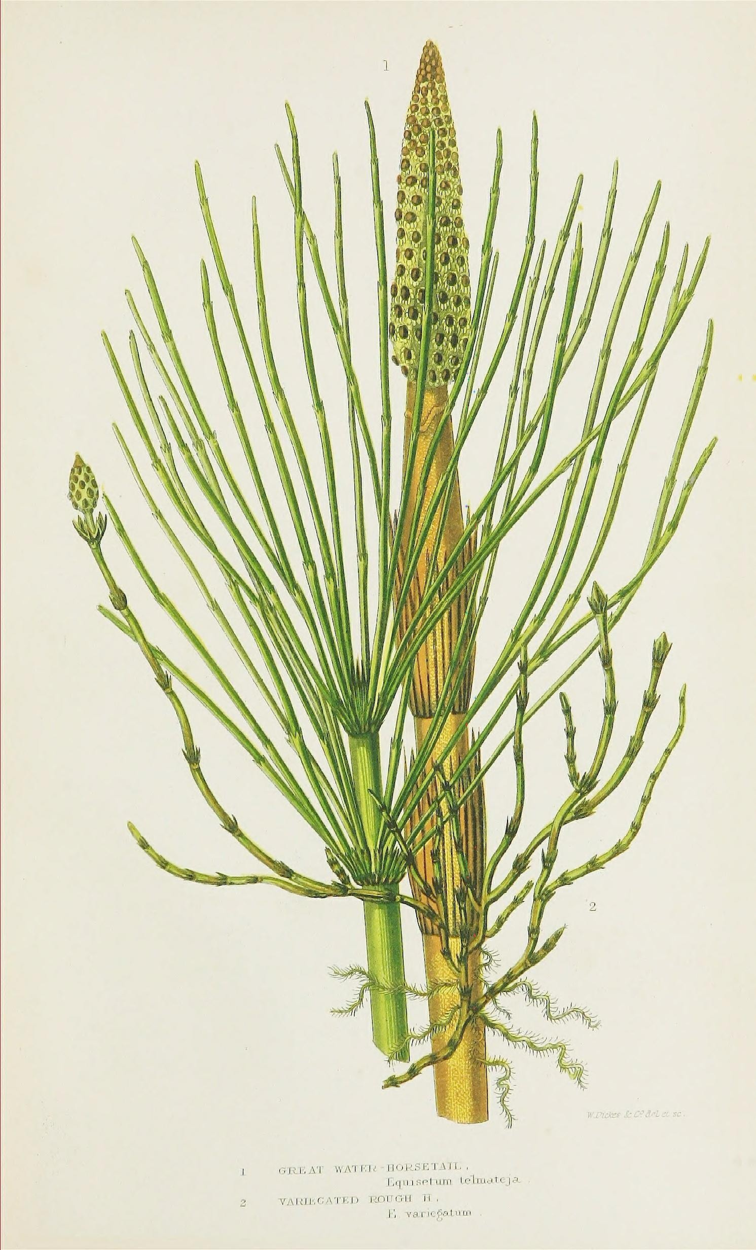 1 Great Water-horsetail, Equitesum telmateja 2 Variegated rough H, E variegatum